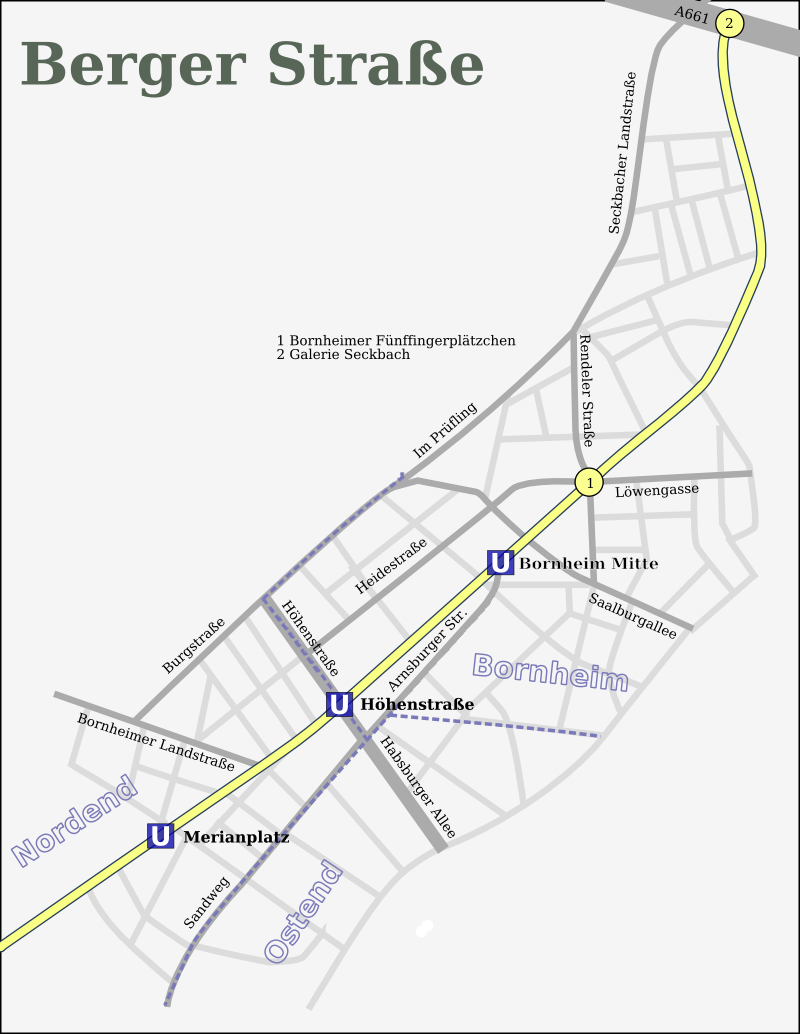 Map of the Berger Straße in Frankfurt